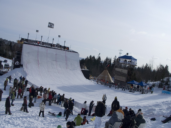 T.A.C monsterpipe